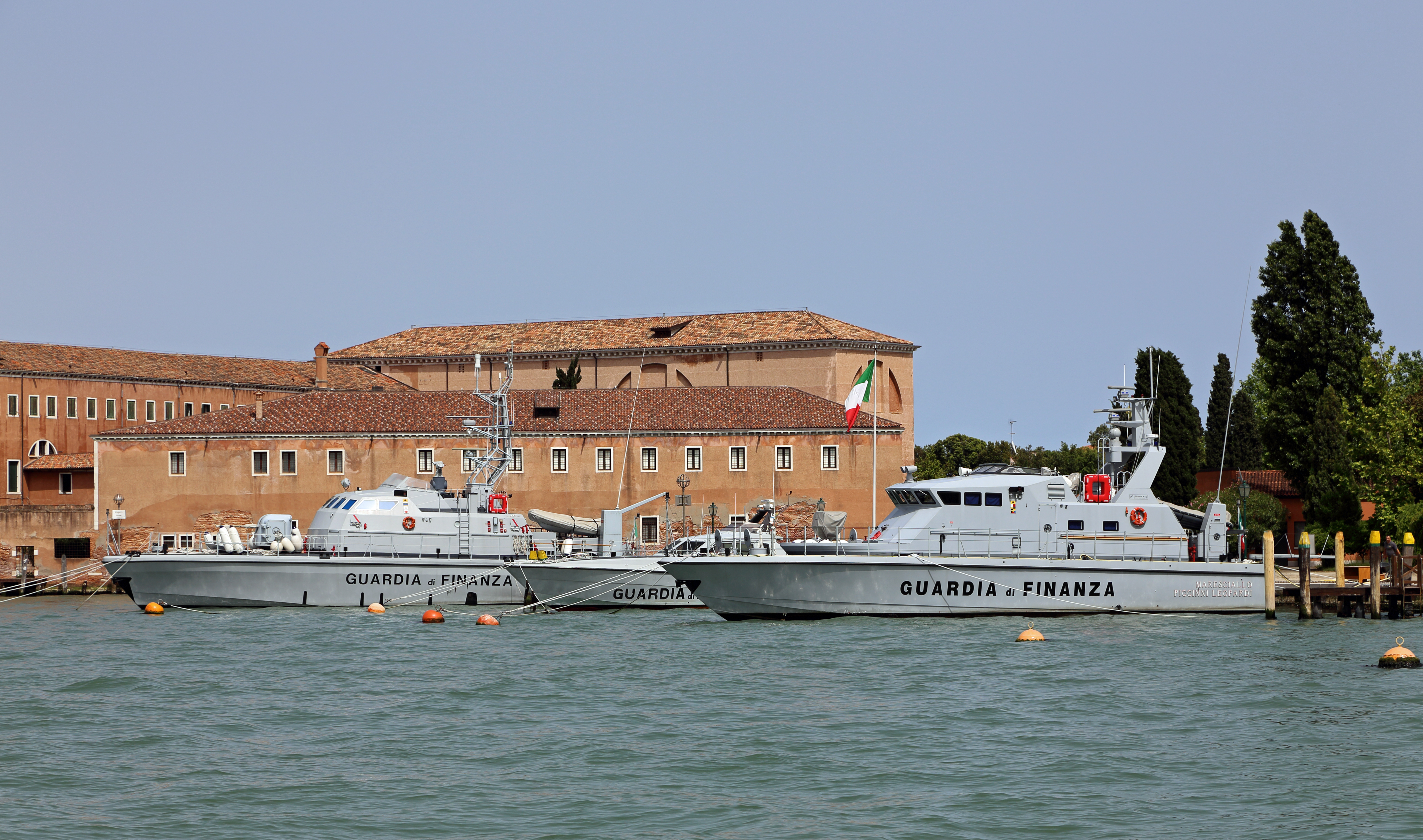 Patrol boats of the Italian coast guard (Guardia di Finanza) in Venice